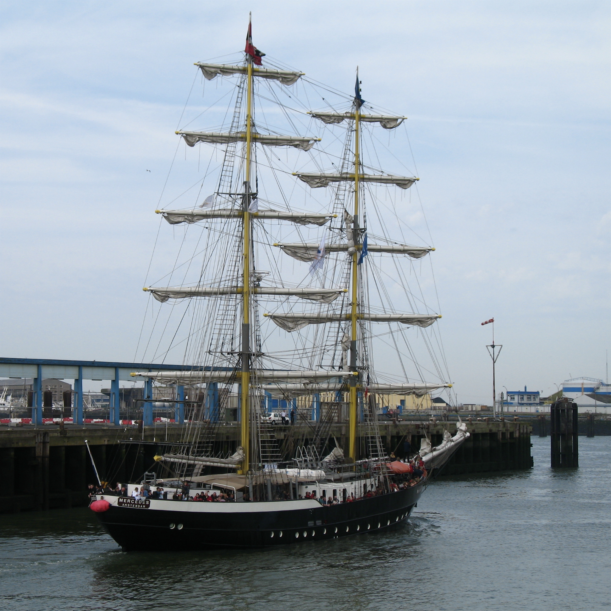 The dutch brig Mercedes leaving the port of Boulogne (France) for a short trip